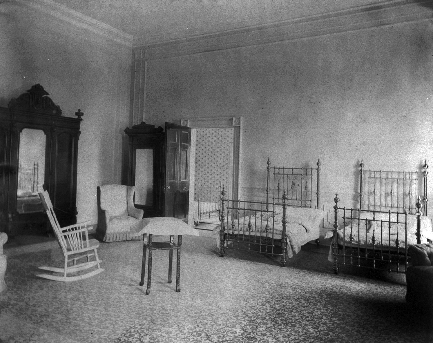 Bedroom of First Daughter Alice Roosevelt at the White House in Washington, D.C., about 1902. This room was an unnamed bedroom suite from the time of its completion in 1809 until 1860, when it was named the Prince of Wales Room. It was renamed the Lincoln Bedroom in 1929, a name it retained until the bedroom suite was removed in 1961 and the space transformed into the Family Kitchen and the President's Dining Room.